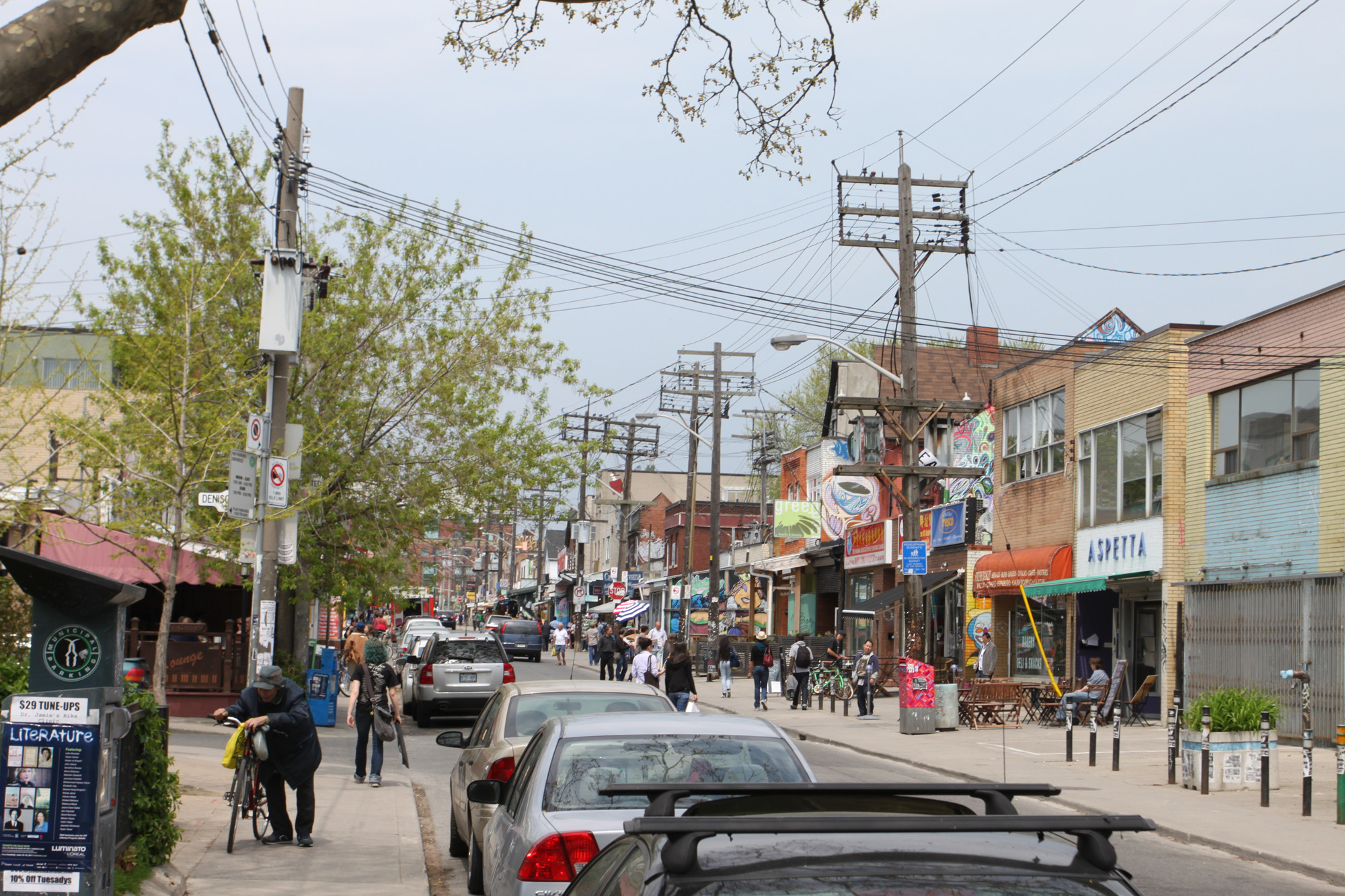 Augusta Avenue in Kensington Market, Toronto, Ontario, Canada.